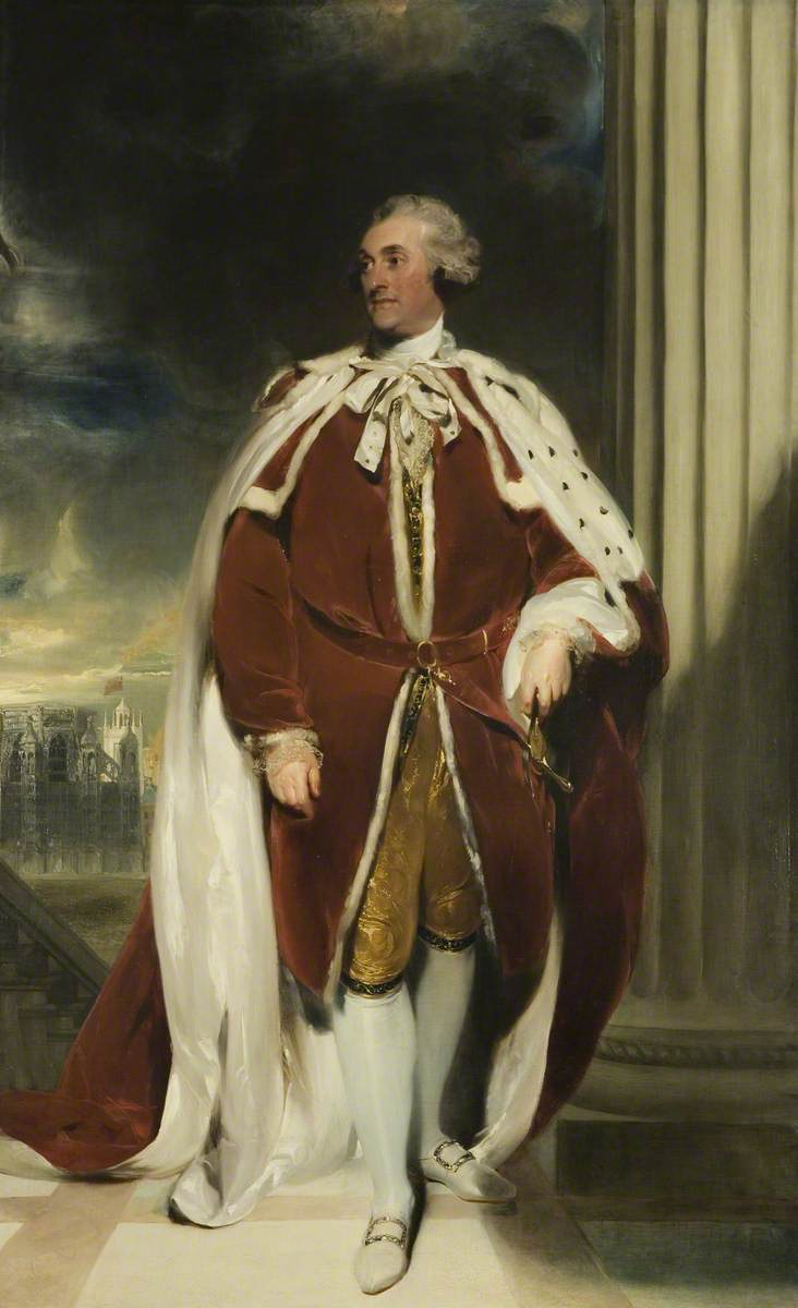 Lawrence, Thomas; William Henry Cavendish-Bentinck, 3rd Duke of Portland; Bristol Museums, Galleries & Archives